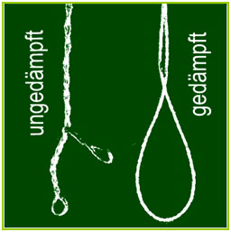 Influence of moisture/heat treatment on yarn liveliness